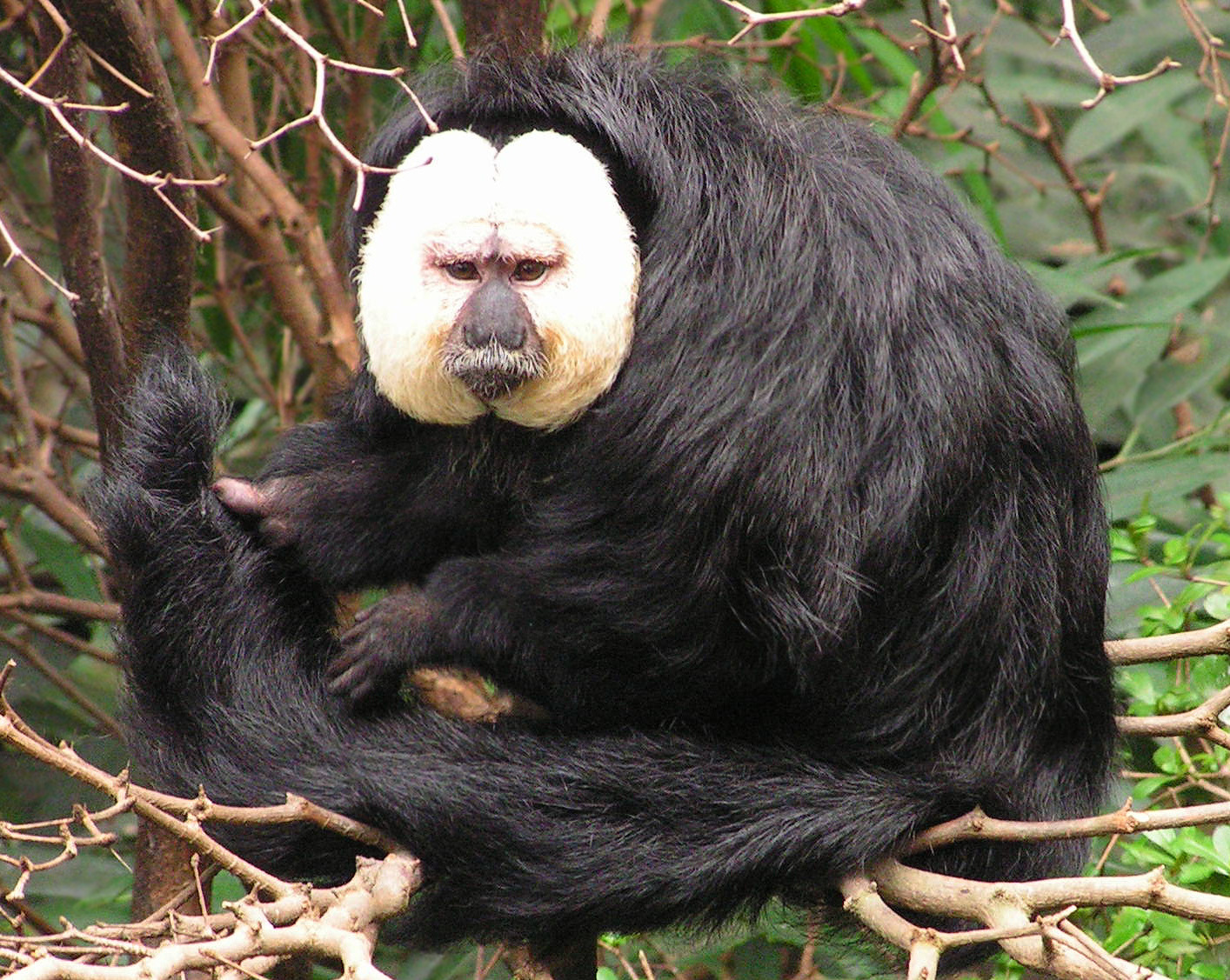 White-faced Saki (Pithecia pithecia), also known as the Guianan Saki and the Golden-faced Saki. Photo taken at the Dallas World Aquarium, Dallas, TX, USA, using a Konica Minolta DiMAGE Z2 camera. Minor color correction with Adobe Photoshop.